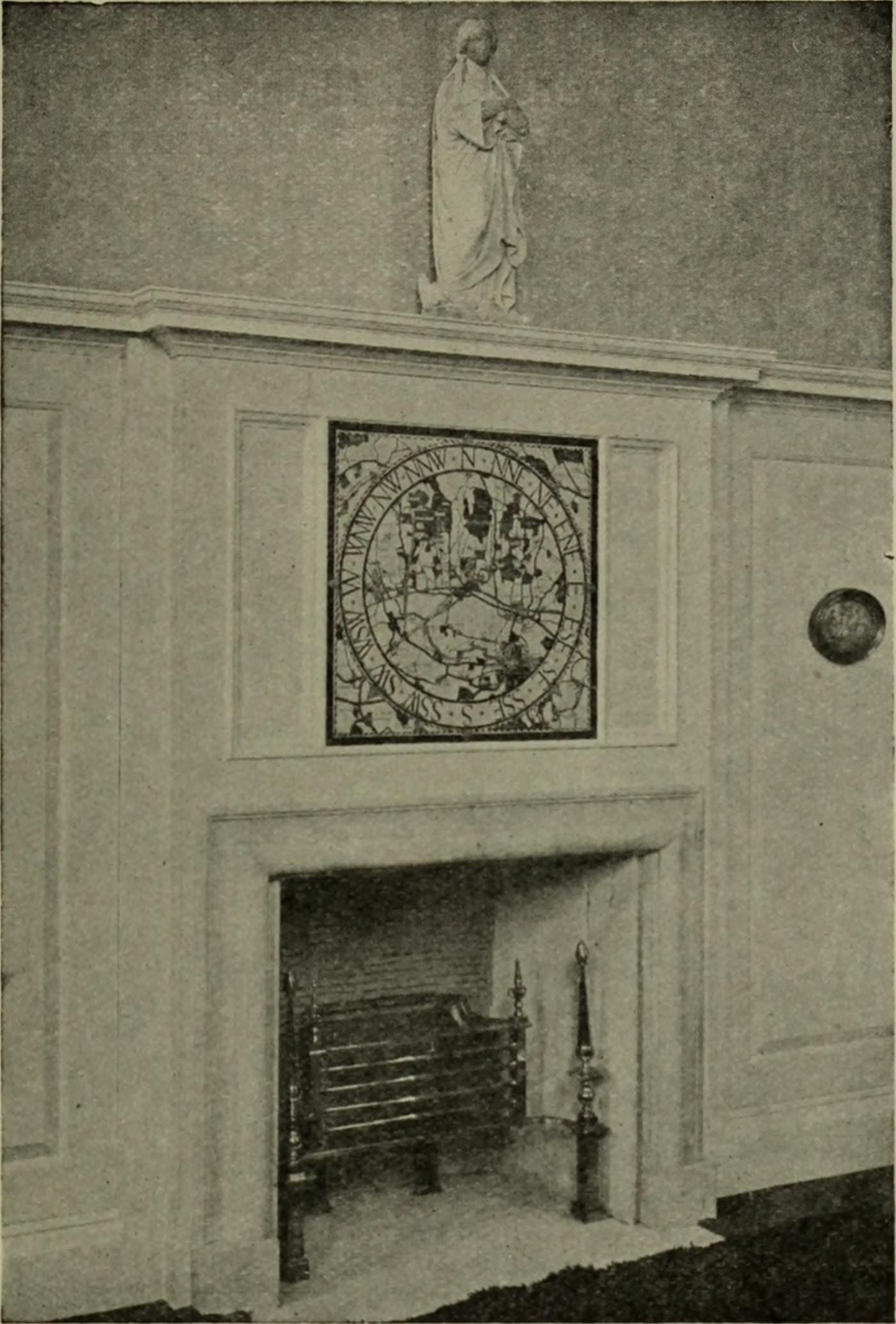 Title: Lutyens houses and gardens Year: 1921 (1920s) Authors: Weaver, Lawrence, 1876-1930 Subjects: Lutyens, Edwin Landseer, Sir, 1869-1944 Architecture, Domestic Gardens Publisher: London, Offices of "Country life", ltd. (etc.) New York, C. Scribner's Sons Text Appearing Before Image: 112.—Plans of Nashdom. Nashdom 159 Text Appearing After Image: 113.—A Wind Dial. that the compass lettering on the outer ring serves to markboth the direction of the wind and the position of thesurrounding landmarks. The mechanism of the pointeris simple. A small additional flue is provided in the chimney,down which runs a rod connected by cogwheels both withthe weather-cock outside and the pointer on the dial. At the south corner of the house the ground drops suddenly,and has given opportunity for a retaining wall and greatstairway, devised with a fine realization of the possibilitiesof the site (Fig. 114). There is a largeness of idea in thetreatment of the stairway, which is altogether admirable.Laid out without any artfulness of curve, it relies whollyon the masculine-disposition of its platforms and walls, and 160 Coventry Patmore on Originality the white mass of brickwork seems to furnish the house withan inviolable buttress. To most observers it will appear that Nashdom is investedwith the quality which, for want of a better name, is kno